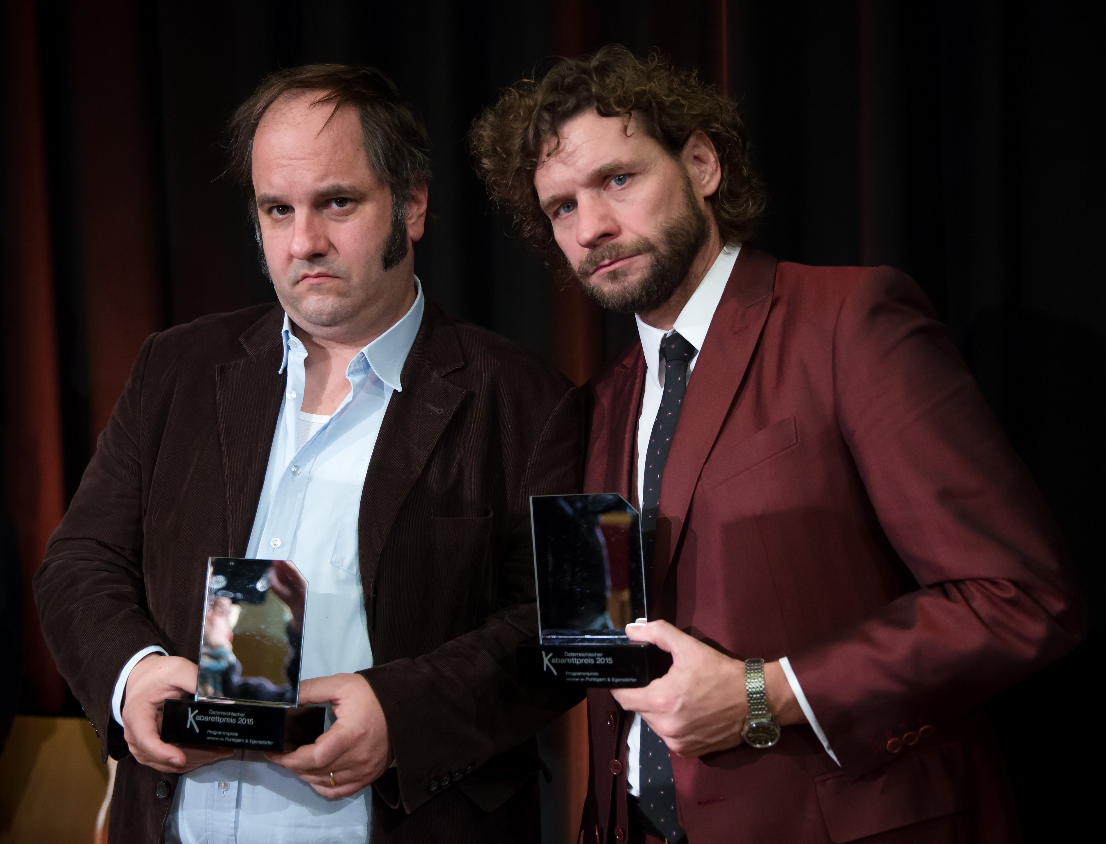 Matthias Egersdörfer and Martin Puntigam, laureates of the Austrian Cabaret Award 2015 at Urania in Vienna, Austria.